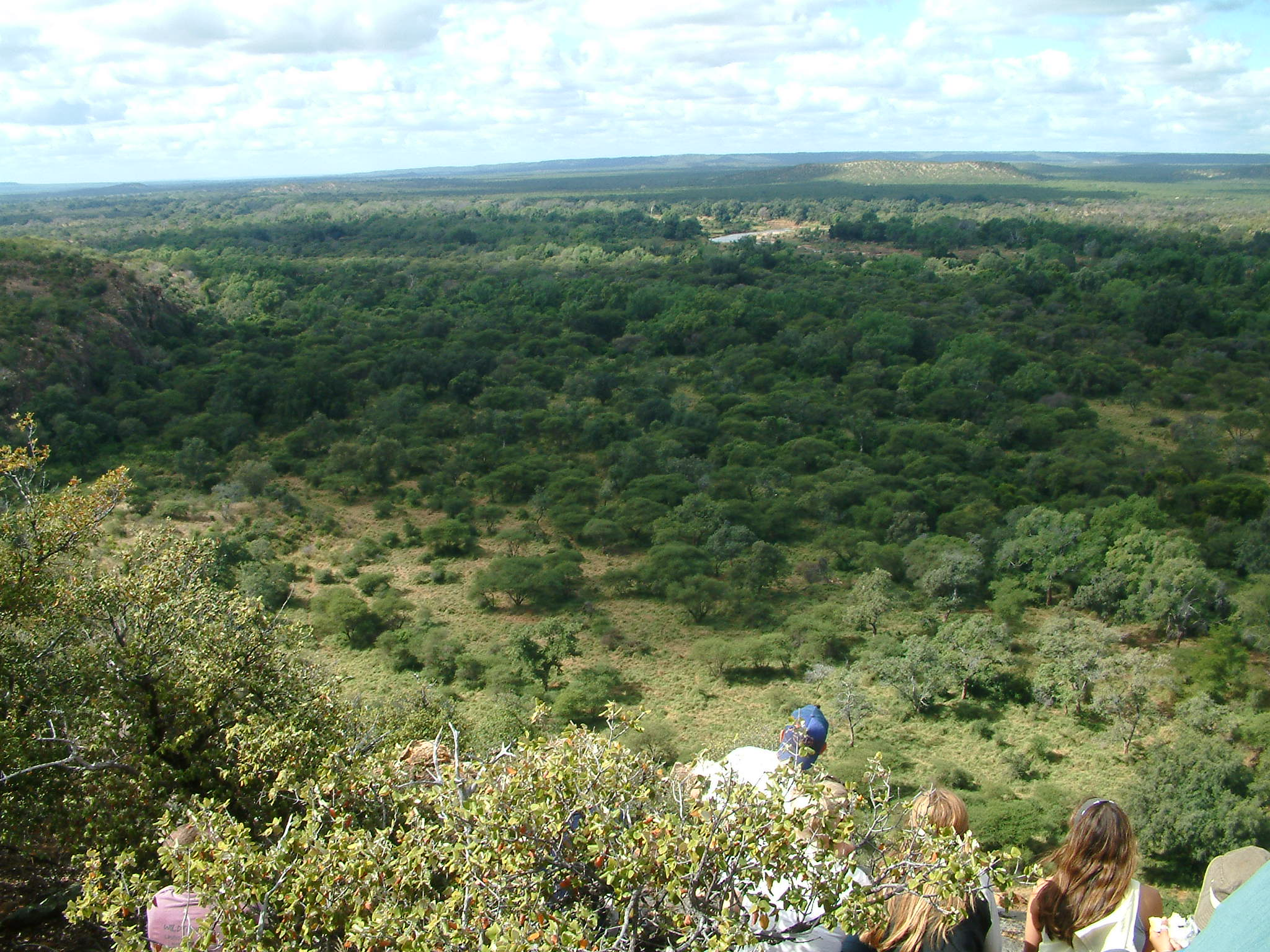 View of the floodplains of the Luvuvhu and Limpopo rivers in the Makuleke region, South Africa. Photo from Lee Berger's Lanner Gorge expedition.